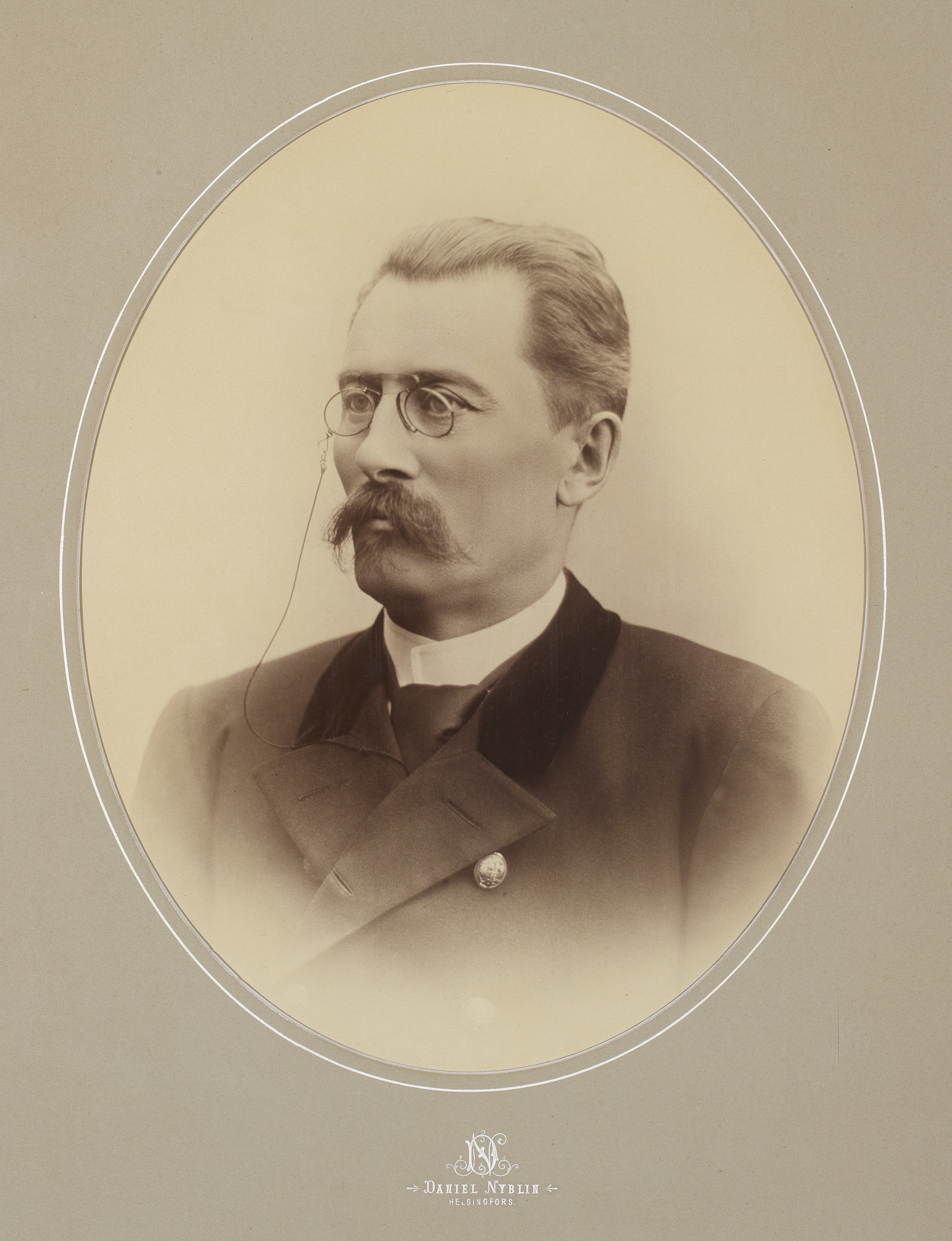 Photograph of the Finnish senator Johannes Gripenberg (1842–1893).